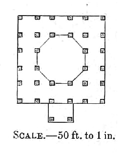 Plan of Mir Abu Turab's Tomb, Ahmedabad, India